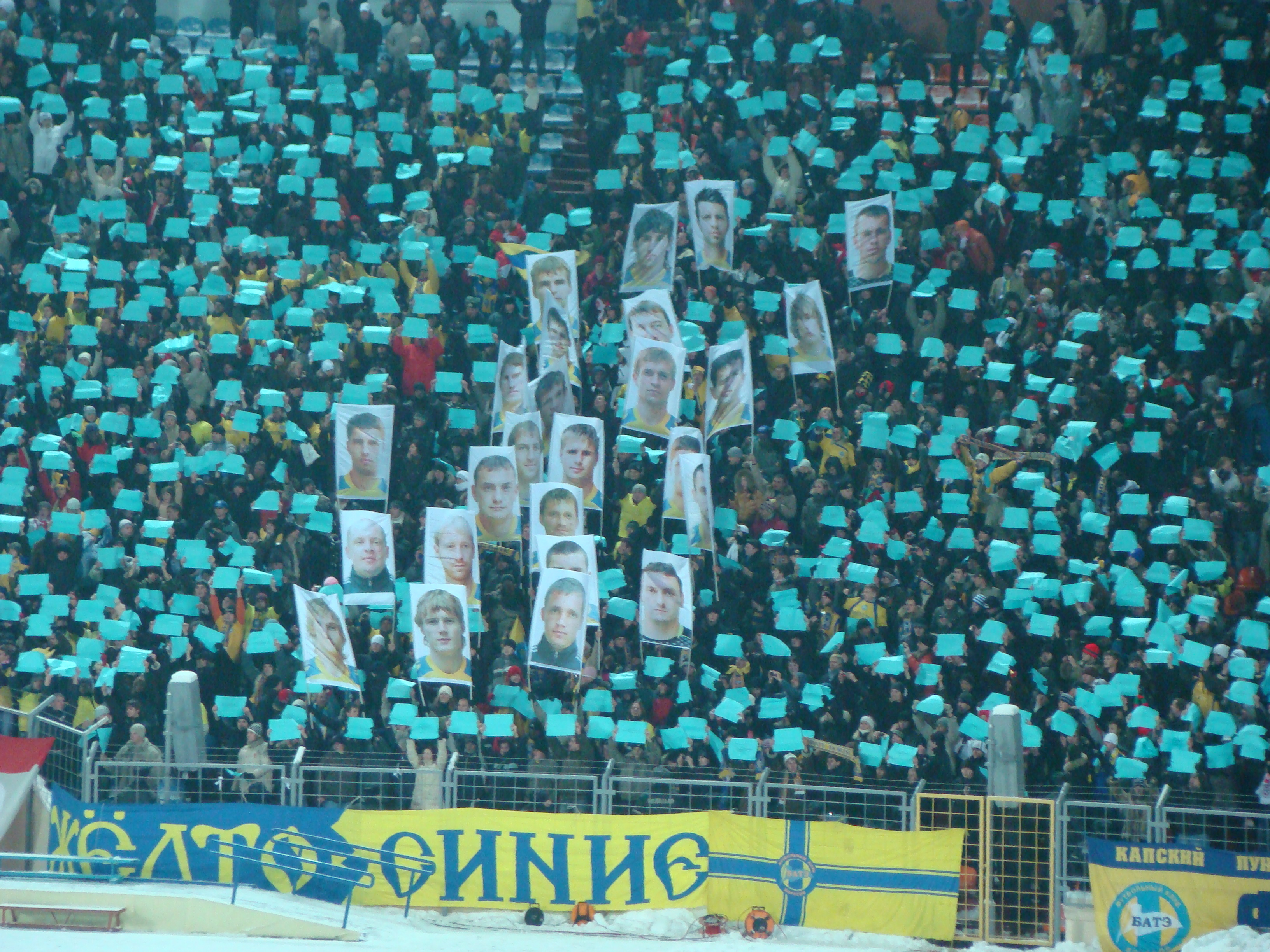 Dynamo stadium, Minsk, 25-11-2008. UEFA Champions league match BATE-Real. BATE fan-sector.